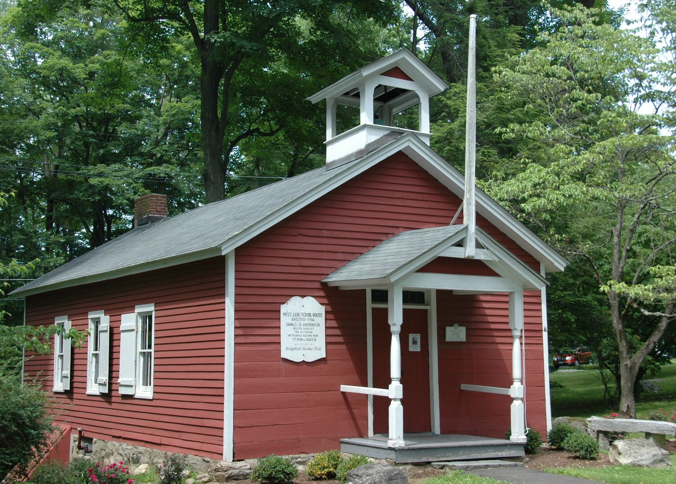 Peter Parley Schoolhouse in Ridgefield, CT (also known as "The Little Red Schoolhouse or The West Lane Schoolhouse". The picture was taken in June 2010 by Don Williams.